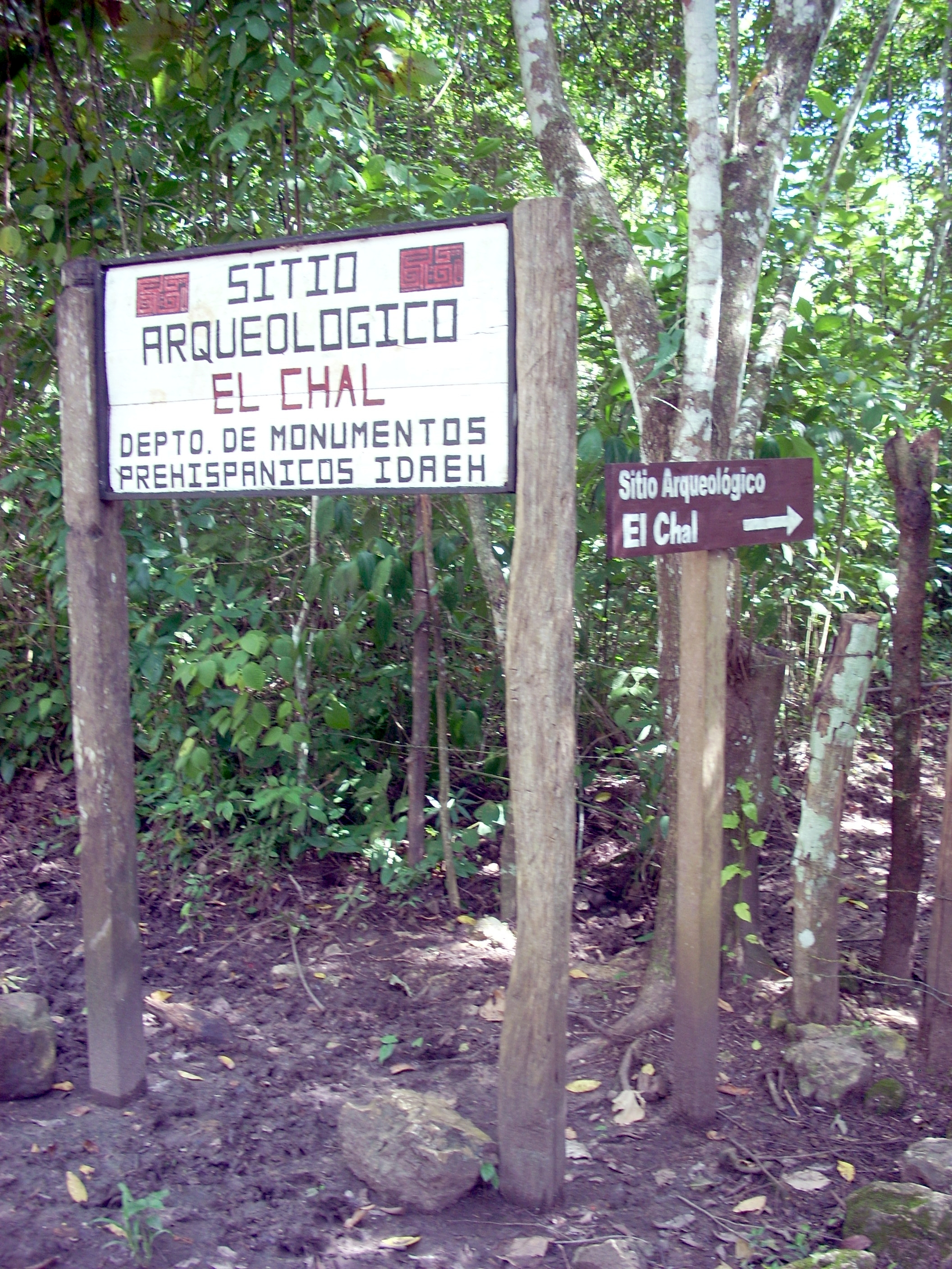 Entrance to the El Chal Maya archaeological site, Peten, Guatemala.